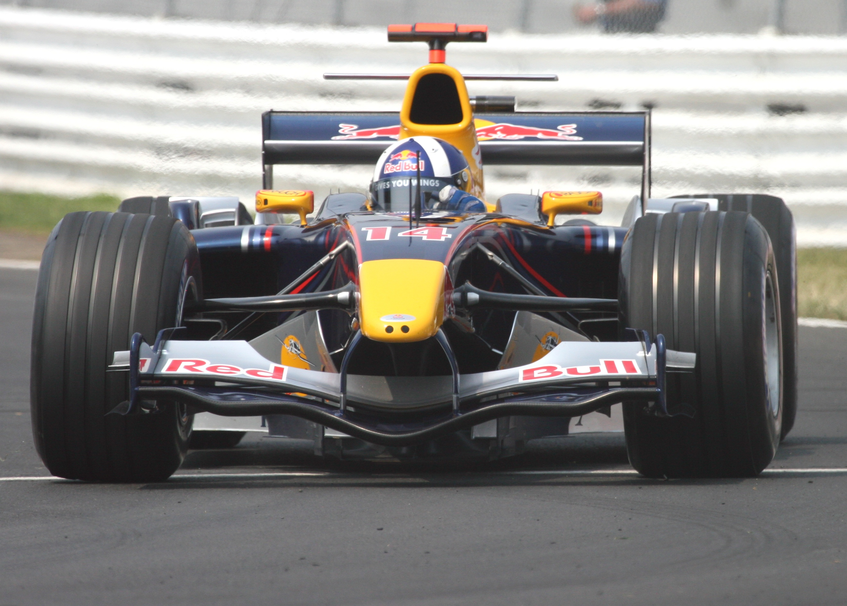 David Coulthard driving for Red Bull Racing at the 2005 Canadian Grand Prix.